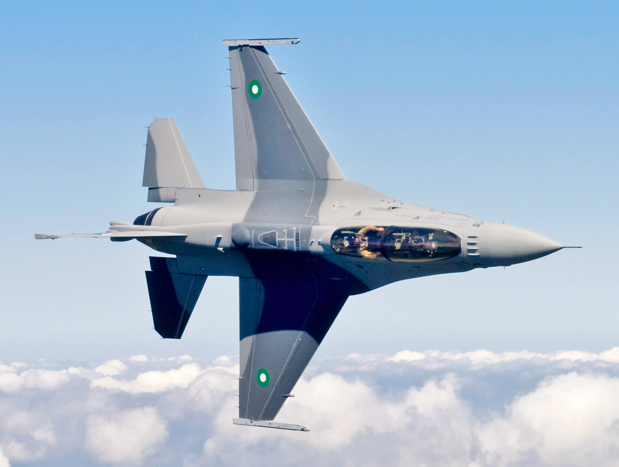 An F-16D Block 52+ 'Fighting Falcon' undergoes testing in the U.S. prior to delivery to the Pakistan Air Force.